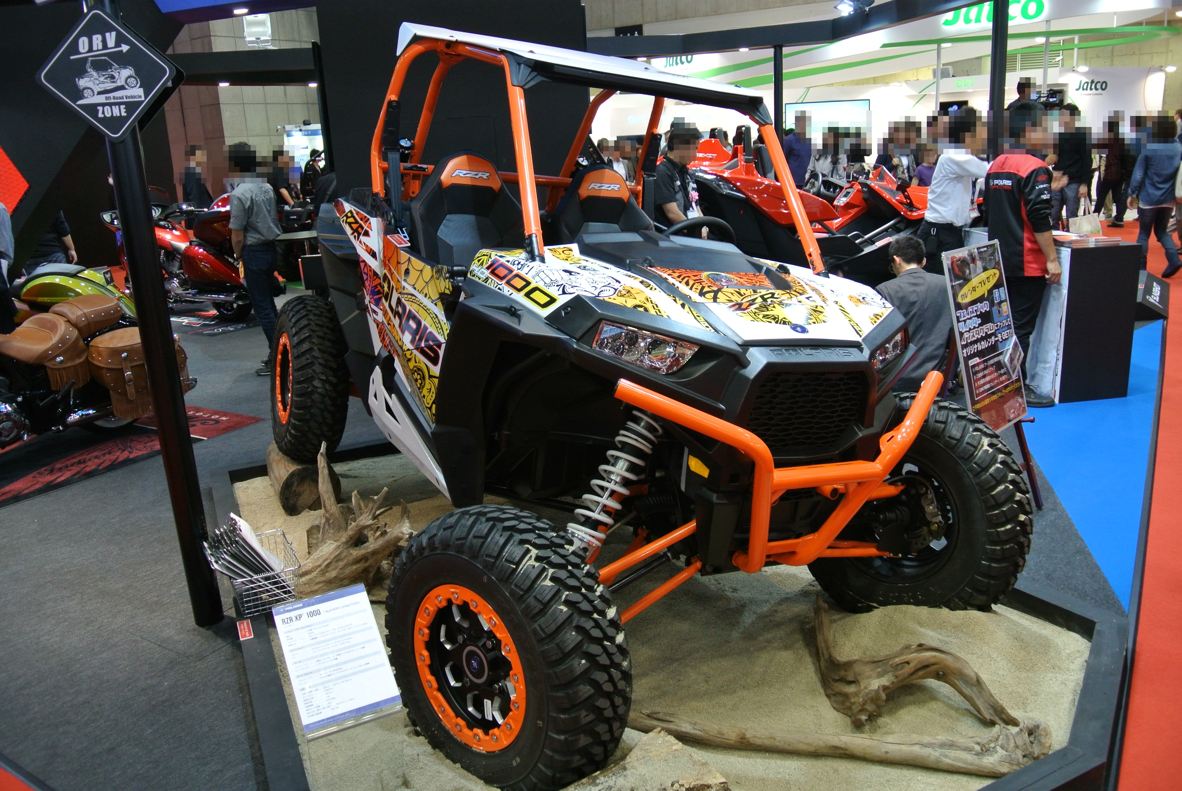 Polaris Industries RZR-XP 1000 at the Tokyo Motor Sow 2015.